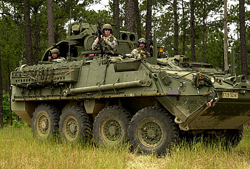 Soldiers from Battery B, 4th Battalion 11th Field Artillery Regiment patrol the entrance of Suliyahi Sabina Site in a Stryker light armored vehicle during a training exercise at the Joint Readiness Training Center at Fort Polk, La., on May 8, 2005. The soldiers are training in preparation for their upcoming deployment in support of Operation Iraqi Freedom.